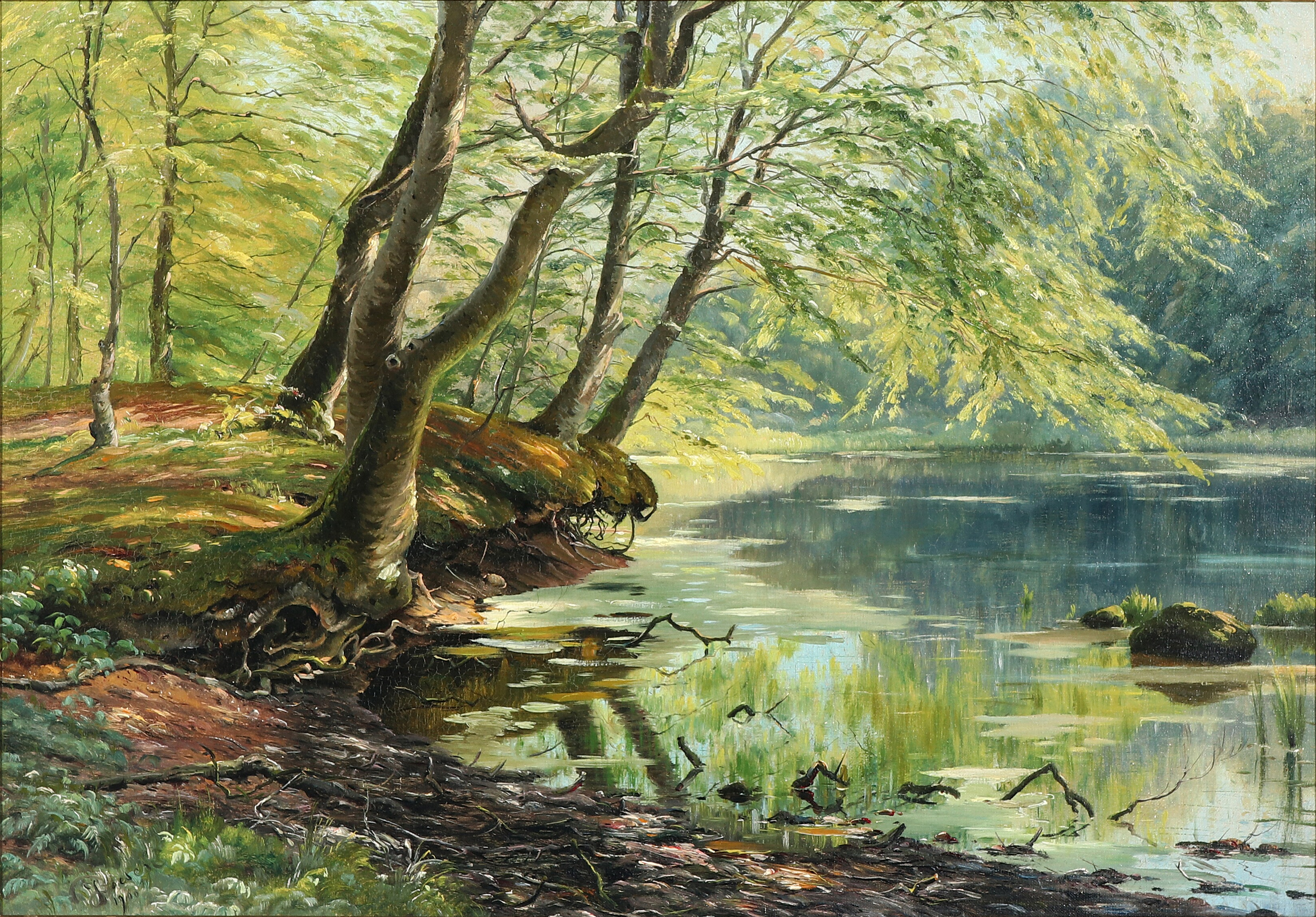 Landscape near the manor of Lykkesholm, south of Grenå.